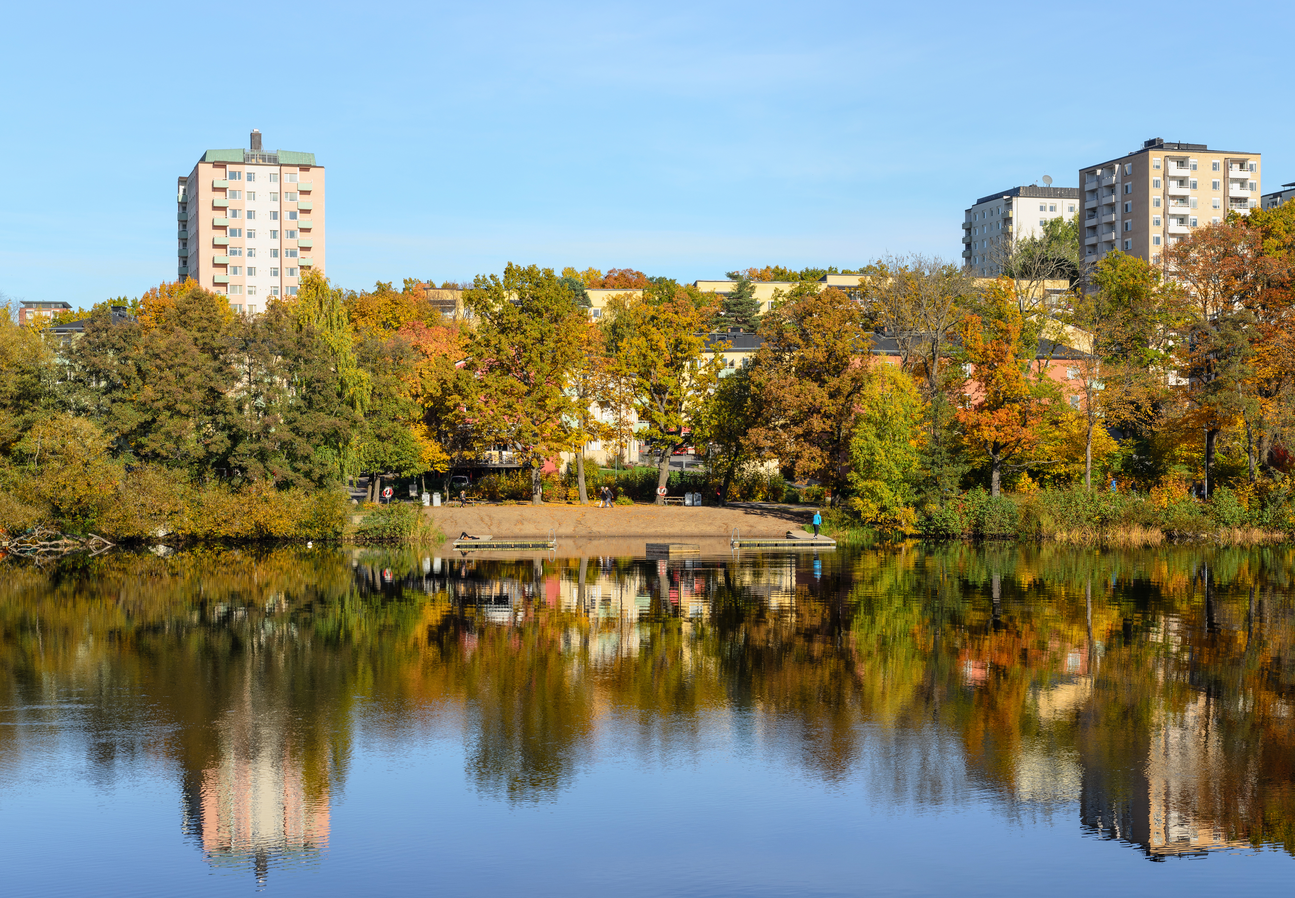 Residential buildings in Sickla Strand, Nacka, Stockholm.